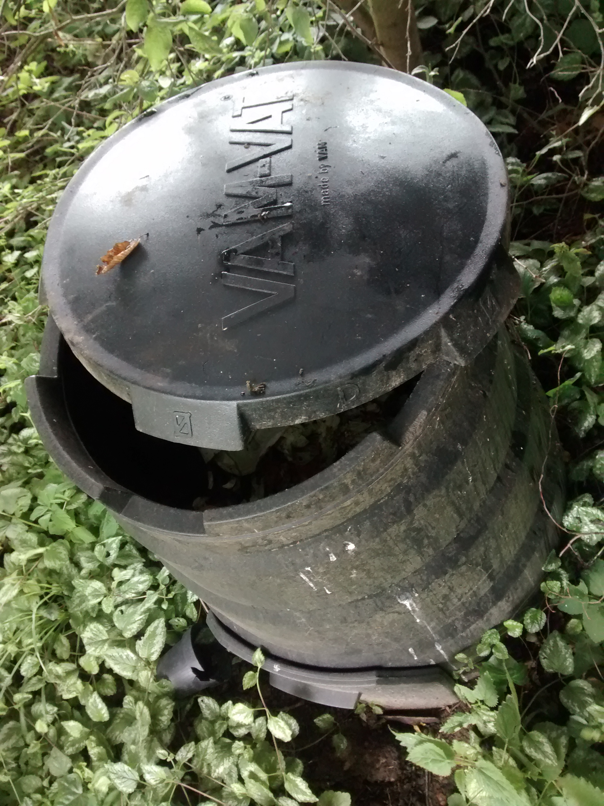 Marke: "Vam"